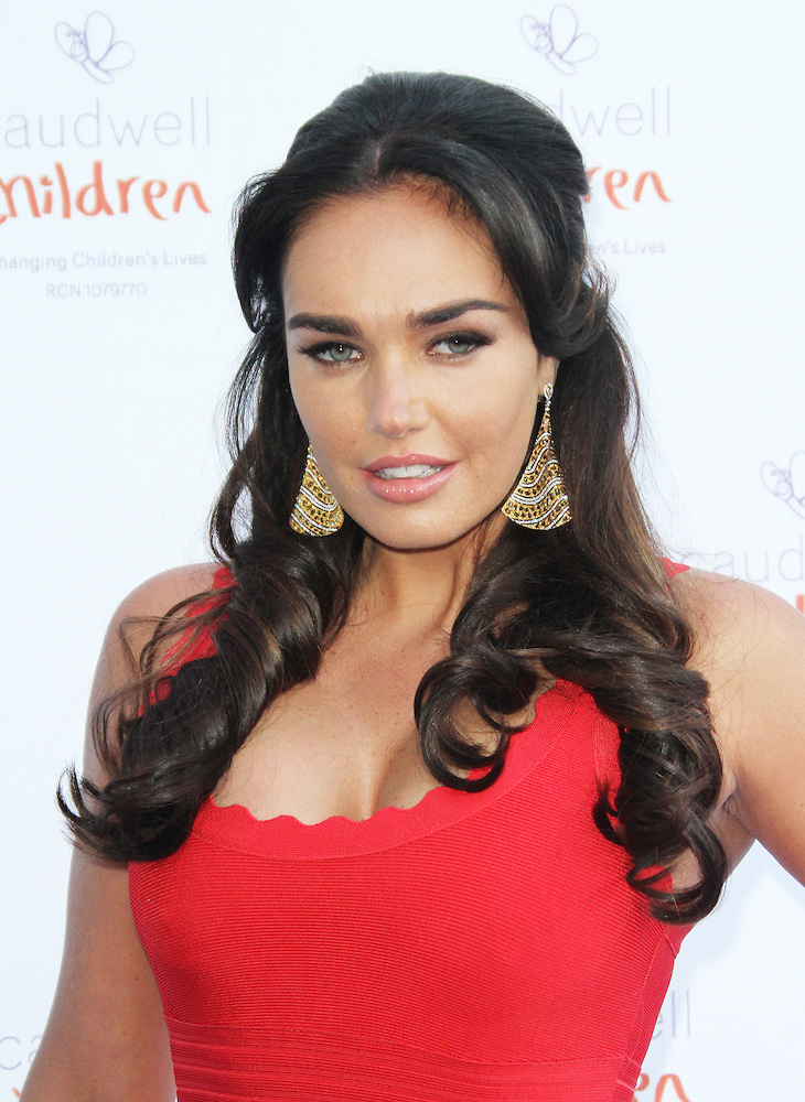 British model and television personality Tamara Ecclestone at the 2013 Butterfly Ball: A Sensory Experience at the Battersea Evolution in London, UK.